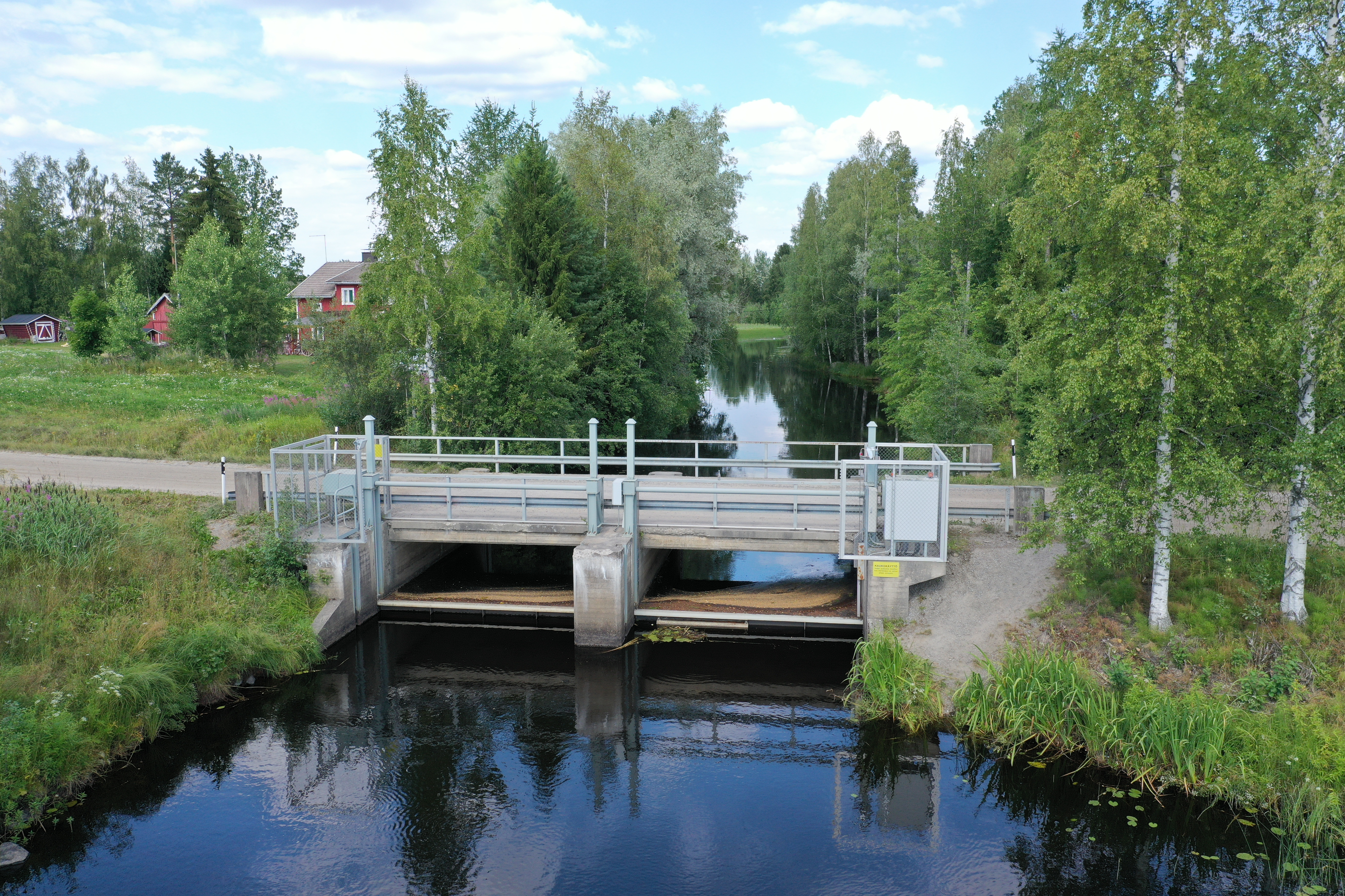 Kourajoki bridge and dam in Suodenniemi, Finland